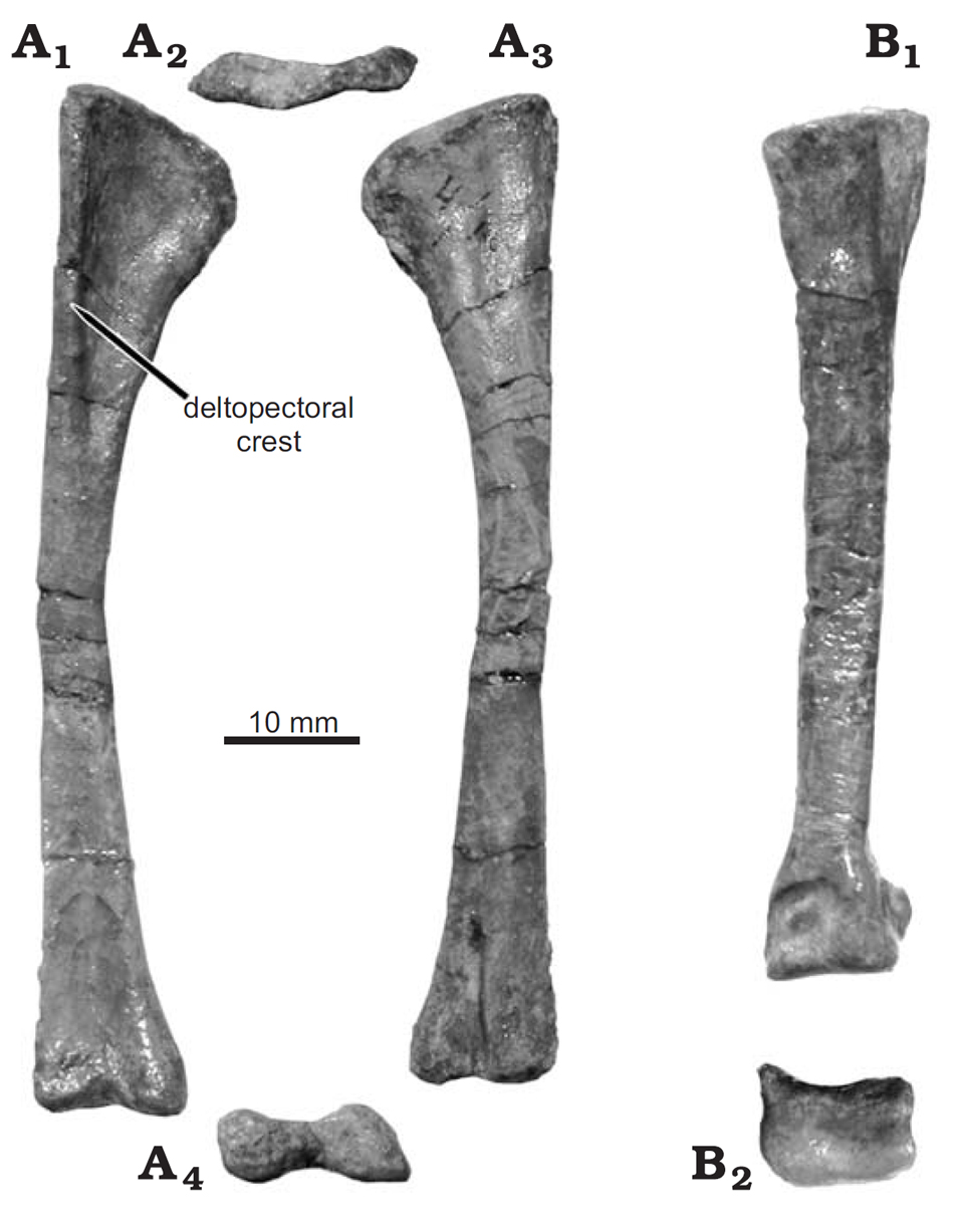 Limb elements referred to Diodorus scytobrachion gen. et sp. nov., Timezgadiouine Formation, Late Triassic. A. MNHM−ARG 34, isolated right humerus, in anterior (A1), proximal (A2), posterior (A3), and distal (A4) views. B. MNHM−ARG 36, isolated metatarsal, in anterior (B1) and distal (B2) views.